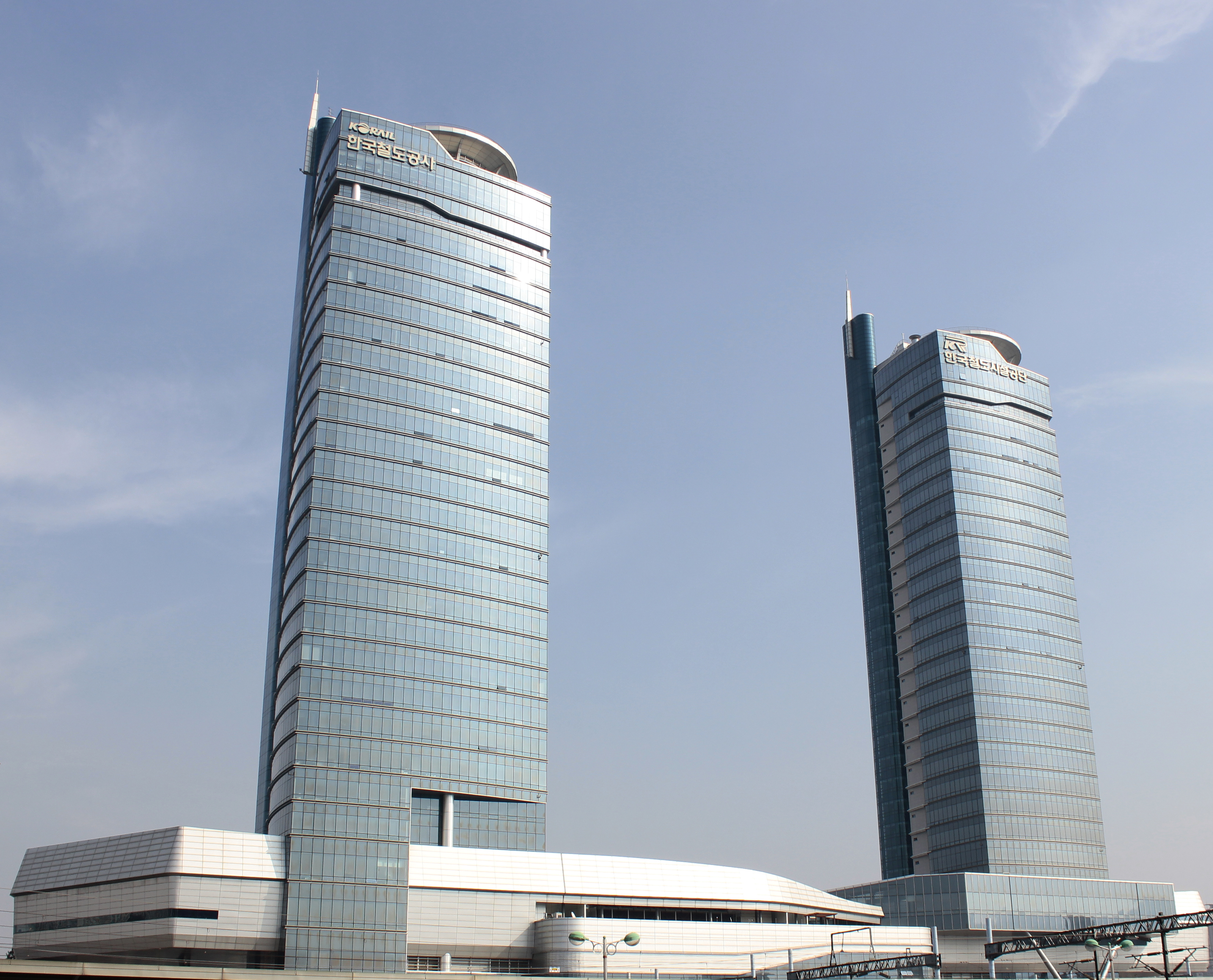 @Daejeon Station